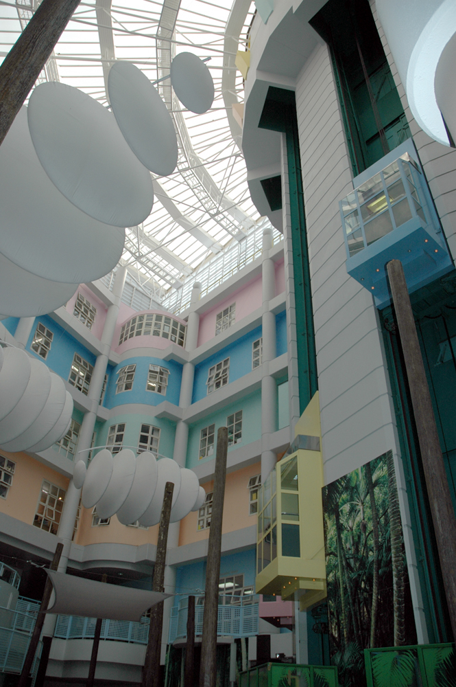 Interior of Starship Children's Hospital in Auckland, New Zealand, from below.